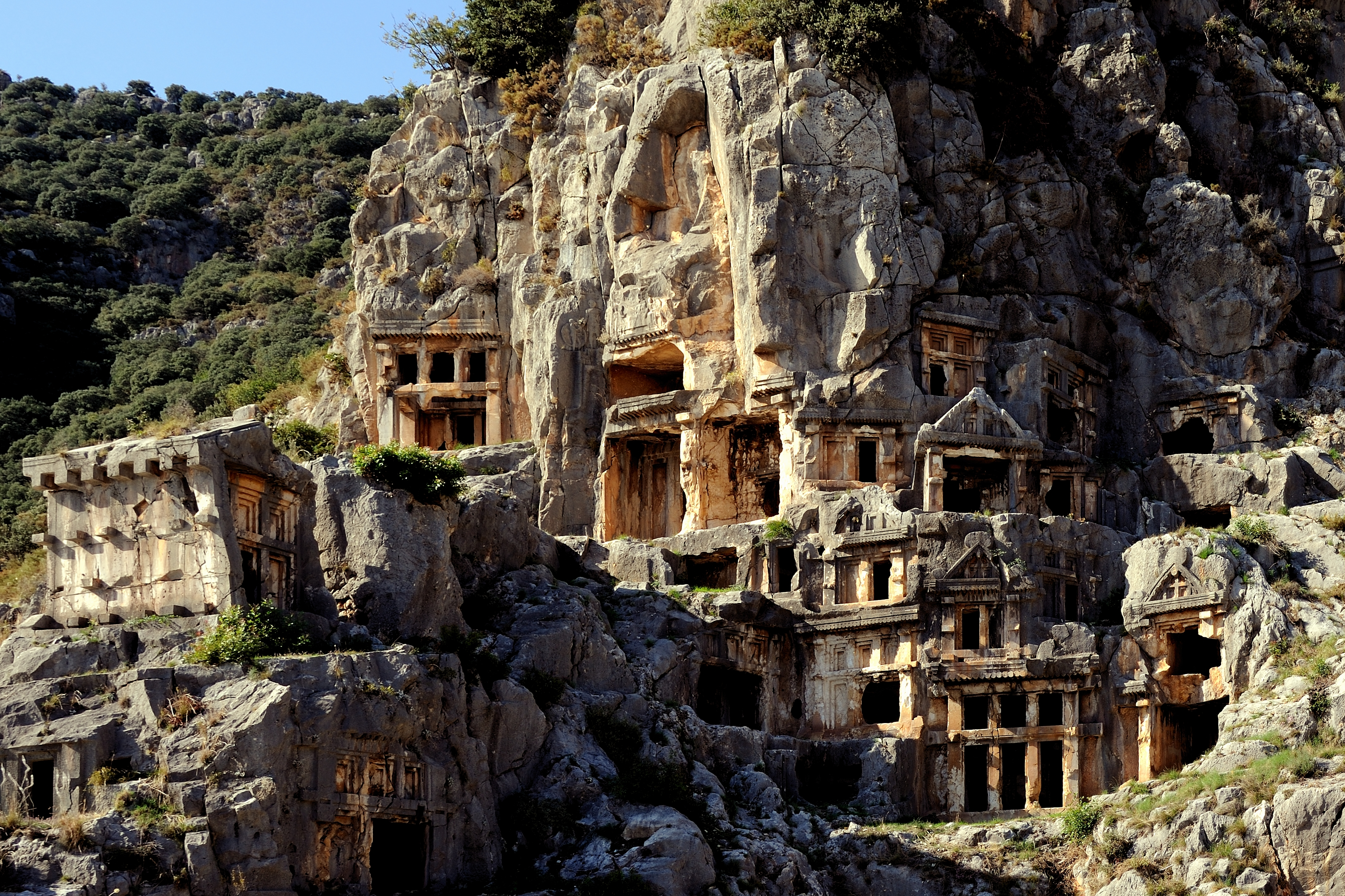 Lycian rock-cut tombs in the form of temple fronts carved into the vertical faces of cliffs at Myra, Turkey.